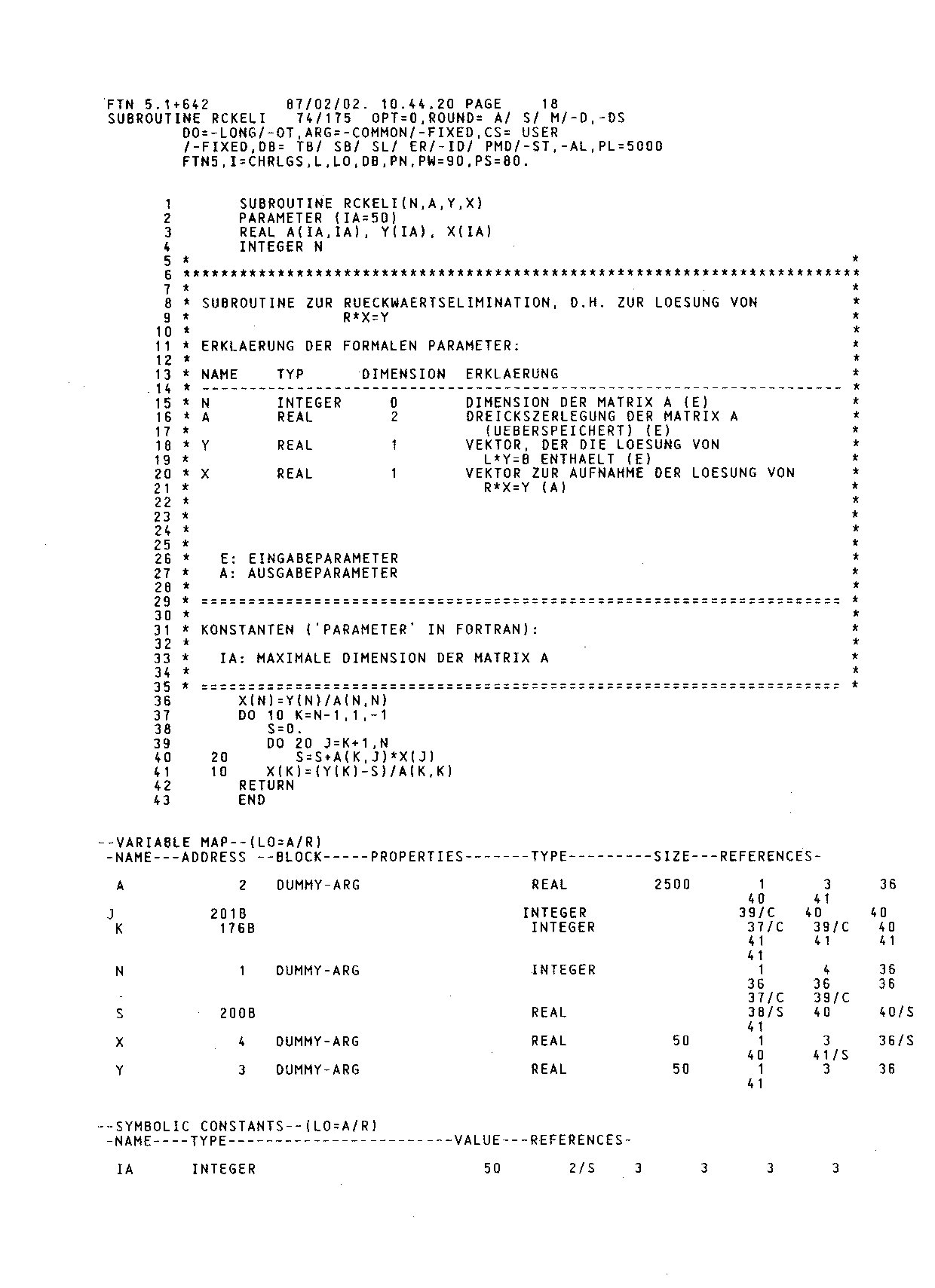 FORTRAN-77 program with compiler output (machine: Control Data CDC 175 at RWTH Aachen University)